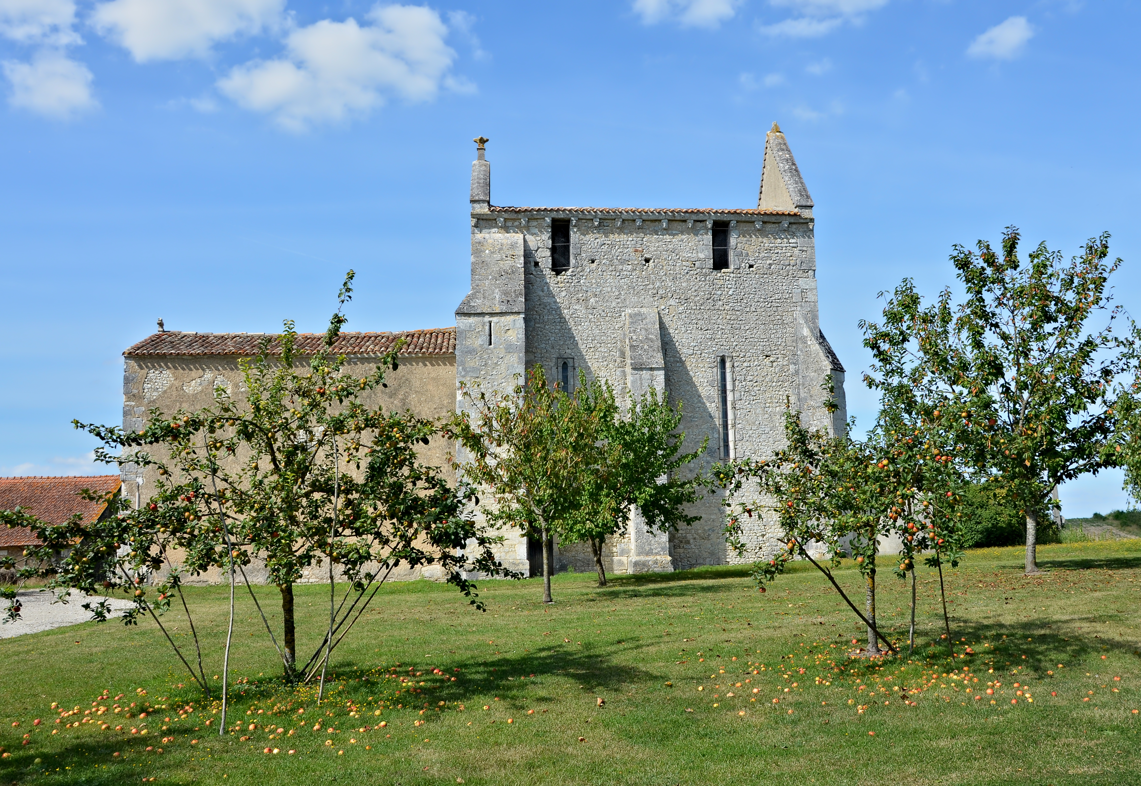 Apple trees with props, near the church of Saint-Aulais-la-Chapelle, Charente, France.